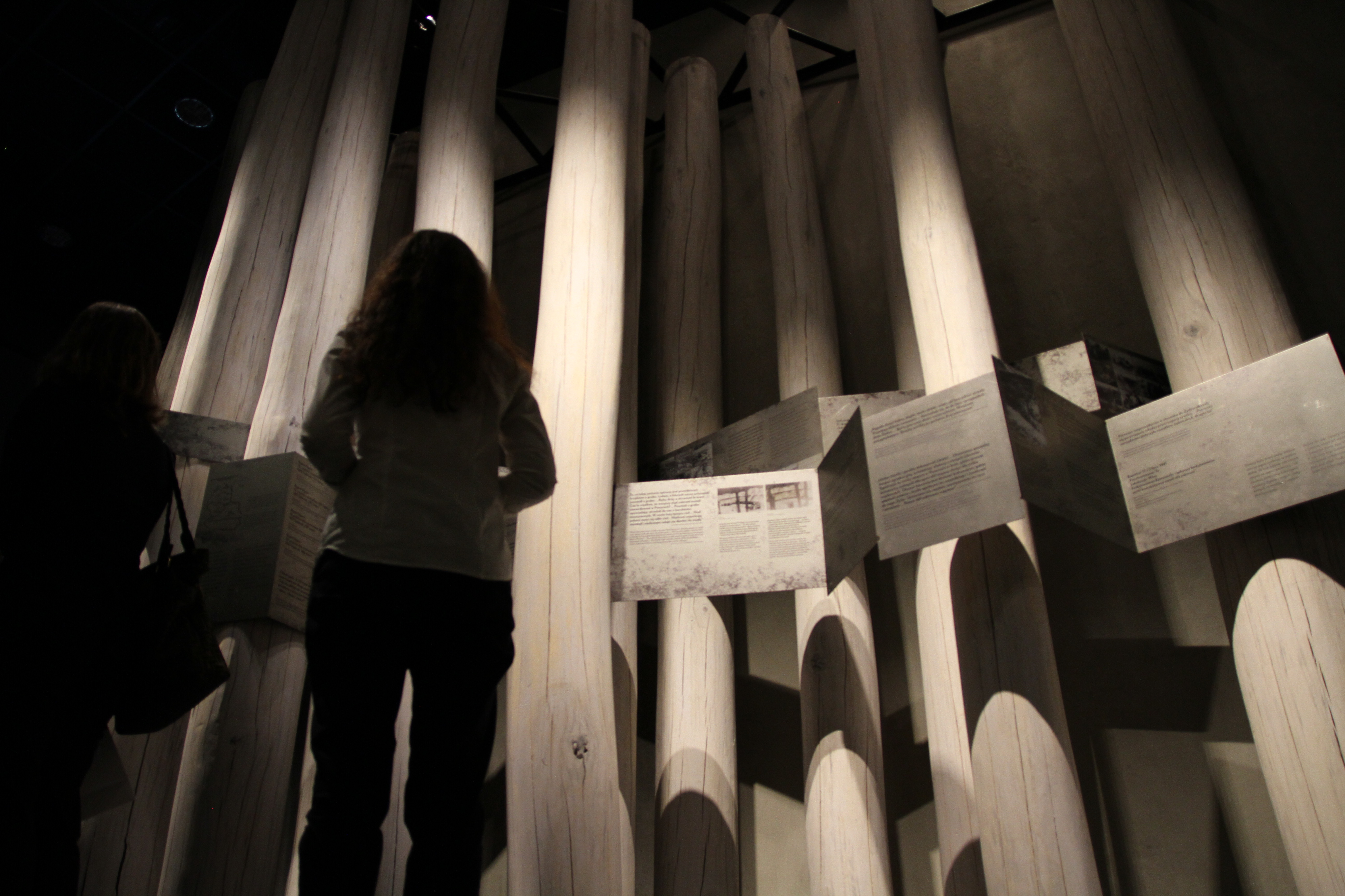 Norway funds the educational programme of POLIN Museum in Warsaw. Activities include free programmes for students and teachers, virtual museum tours, nation-wide travelling exhibitions, etc. A wide range of Norwegian partners are engaged in the programme, including the Norwegian Centre for Studies of the Holocaust and Religious Minorities, the Jewish Museums in Oslo and Trondheim, the European Wergeland Centre and the Falstad Centre.